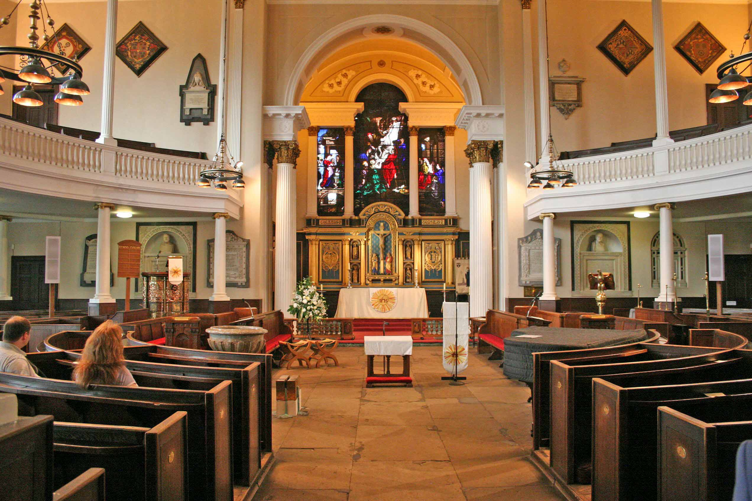 Shrewsbury - St Chad's Church, near to Shrewsbury, Shropshire, Great Britain. Internal view of this fine church, which was opened in August, 1792. On 15th November, 1809, Charles Darwin was baptised in this church. St Chad's is Shrewsbury's Civic Church where important ceremonies take place, including Mayor-Making and various Remembrance Services.